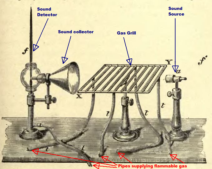 One of John Tyndall's setups for demonstrating reflection of sound in air. The tall black object on the left labeled f in the illustration is a flame from flammable gas, which is coming out of a small nozzle under high pressure. The sound-collecting cone directs the sound to the base of this tall flame, just above the nozzle. At the tall flame's base, tiny compressions and decompressions to the air from sound waves cause tiny changes in the flow of the gas, which cause non-tiny, visible wobbles and flutters higher up the flame column. When there is no sound, the tall flame is perfectly erect and tranquil. This is Tyndall's sound detector (largely developed by himself, after he got the original basic idea from John Le Conte). The sound generator emits a high pitch, and it's emitted in a directed way via a small cone. In the center of the illustration is a set of ordinary or low-pressure gas burners. When some of these burners are lit, the volume of sound that reaches the sound detector is reduced; and when all of them are lit, no sound at all reaches the detector. (A large set of weak burners is more effective at blocking the sound than a smaller set of stronger burners). Now, Tyndall relocated the sound collecting & detecting unit to the place marked f' on the righthand side of the illustration, behind the sound emitter. When the grill is off the detector doesn't detect the sound at this new location. But when the grill is on, the sound is detected there. Thus, the lit grill has reflected the sound (bounced it like an echo). The direction the sound is reflected to can be shaped by shaping the array of gas burners. The difference between the lit and unlit grill is essentially heat and the low-density air associated with heat. Although the air density disparities are very high in this experiment, the experiment is taken to demonstrate that sound is reflected at the interfaces between air masses of different densities, more generally.